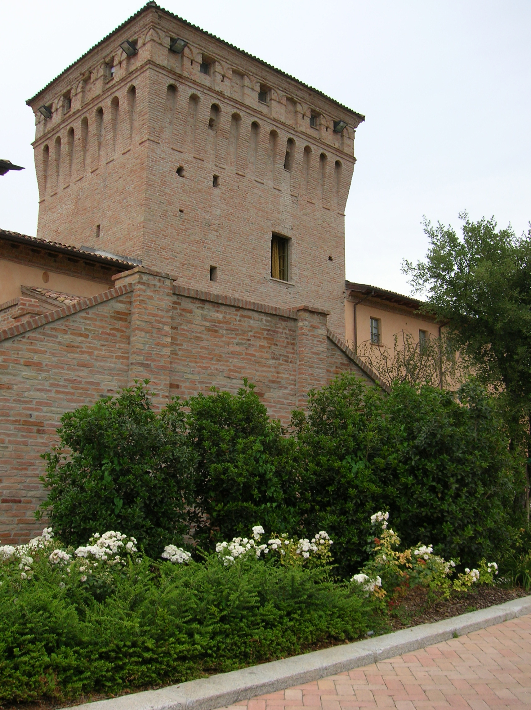 Italian Castle: Castello dei Landi in Chiavenna Landi, (it's an Hotel)